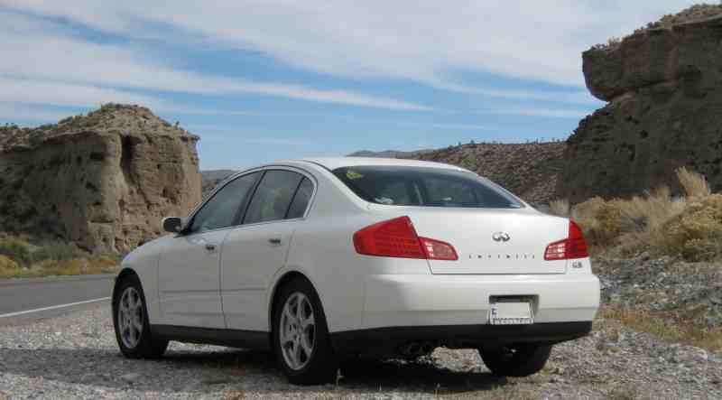 2003 Infiniti G35 sedan US version rear view, color : Ivory Pearl (QX1)